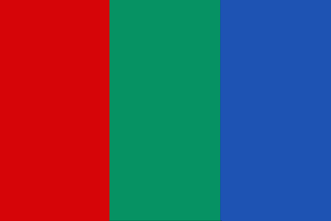 The Mars tricolor flag ("Red Mars", "Green Mars", "Blue Mars"). Not official in any legal sense. Has been approved by the Mars Society and The Planetary Society, and it has also flown in space. Its colours are adapted from photos of the real flag that flew over the Flashline Mars Arctic Research Station (FMARS) on Devon Island, Canada. FMARS is a project operated by the Mars Society in collaboration with NASA's Haughton-Mars Project.